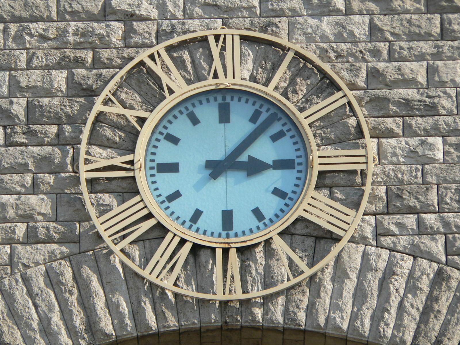 Stuttgart, Germany, clock at the north entrance of the main station